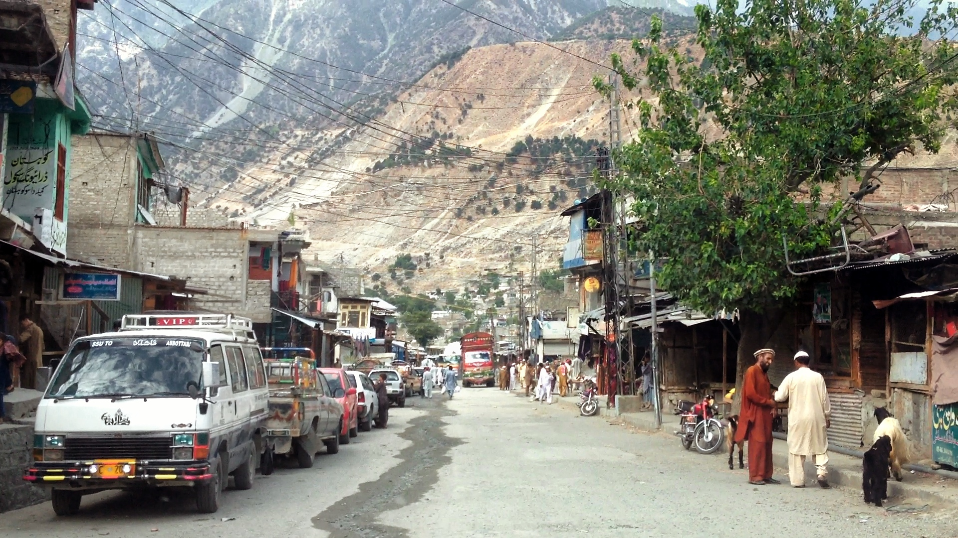 Komila, Khyber Pakhtunkhwa, Pakistan (Karakoram Highway/N-35)